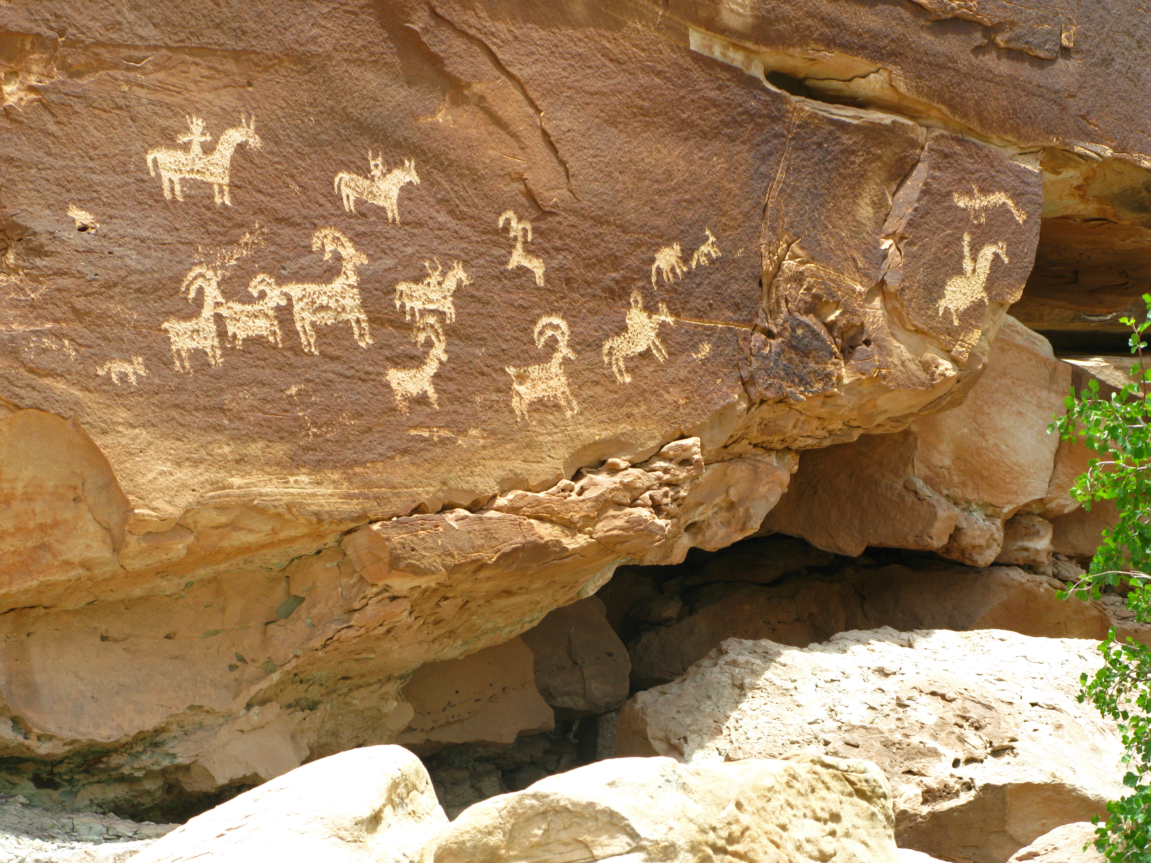 Ute tribal rock art taken at Arches National Park, UTAH. Picture shows stylized horse and rider surrounded by bighorn sheep and dog-like animals. This was carved between A.D 1650 & 1850.